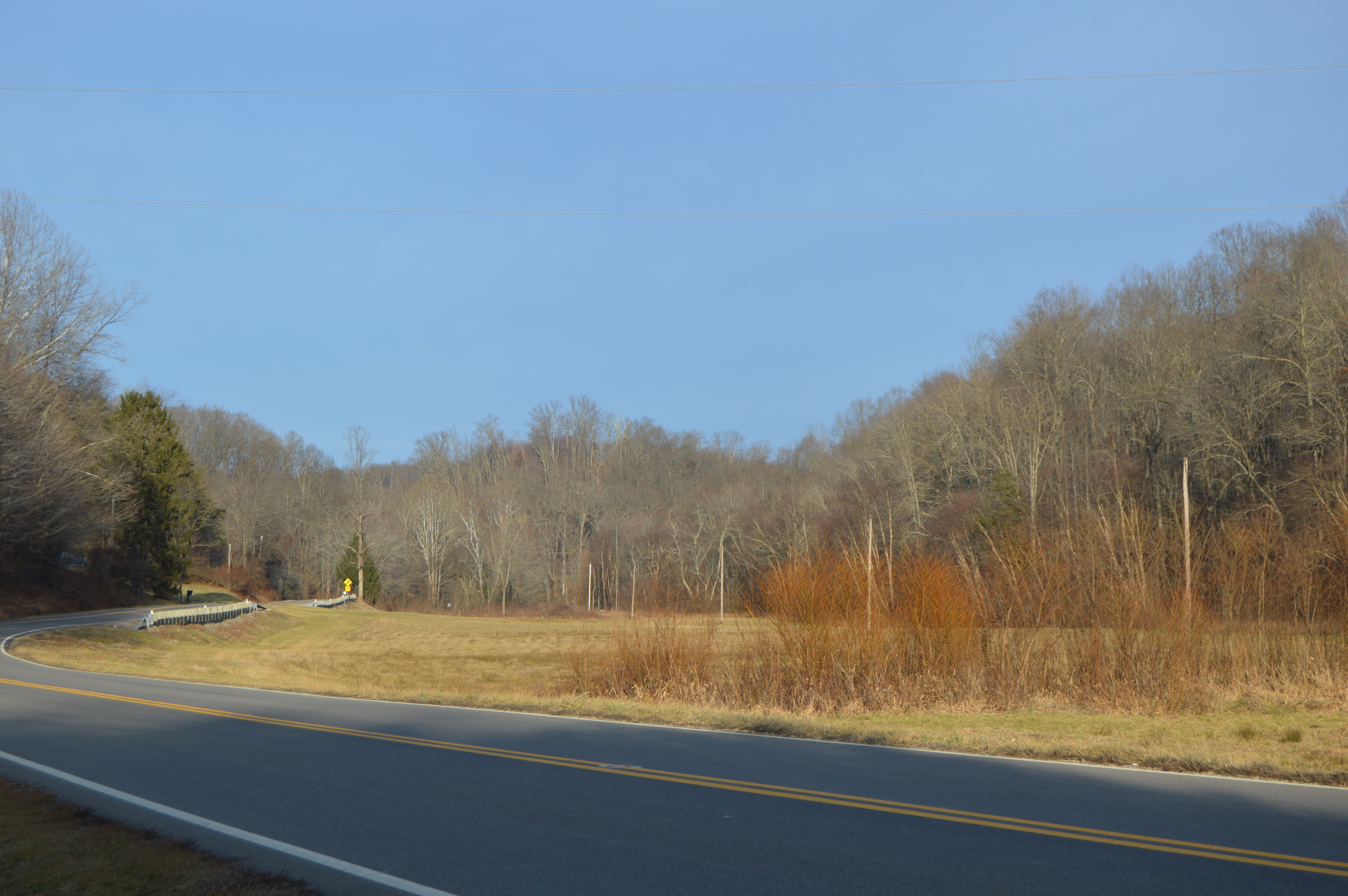 Fields and woods on the southeastern side of State Route 139 just south of the Horton Sisters Road intersection in northeastern Hamilton Township, Jackson County, Ohio, United States.